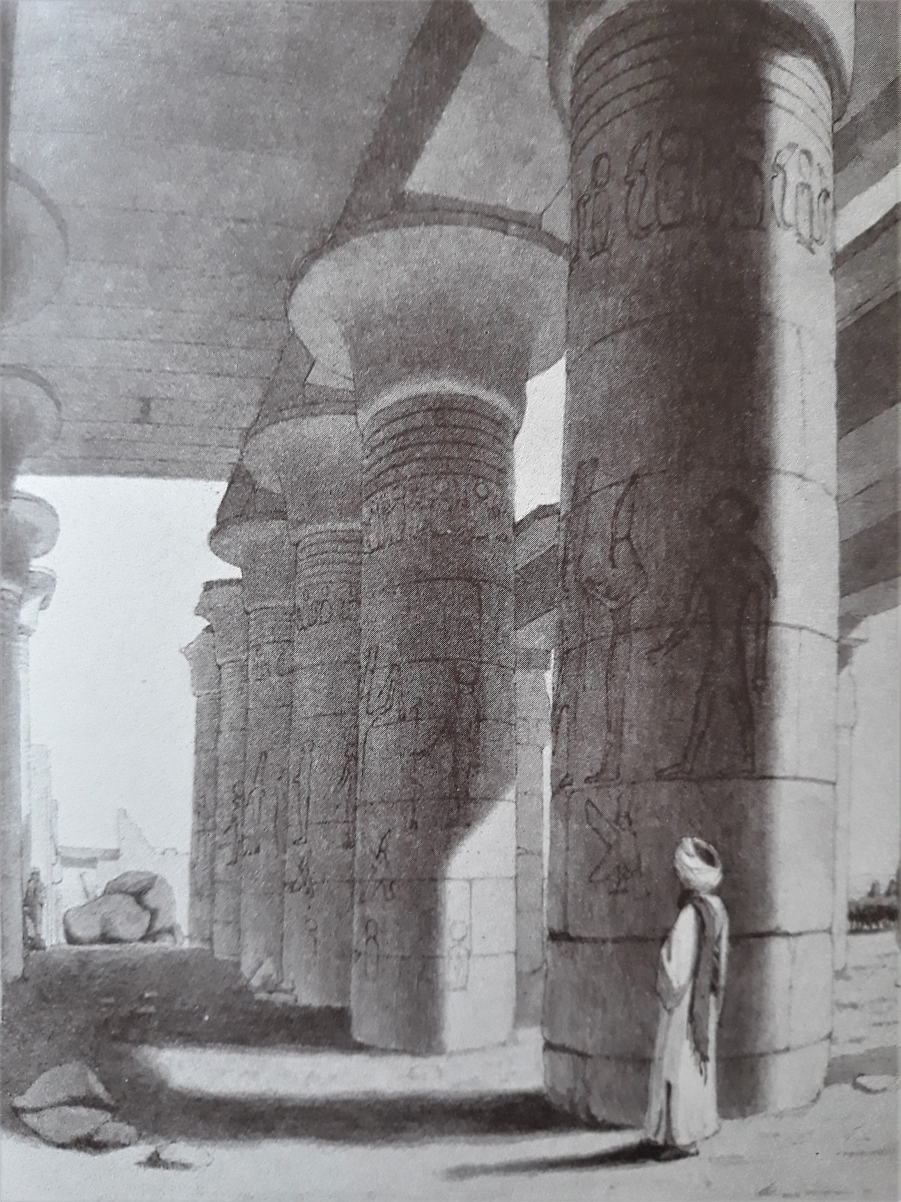 An illustration of the Interior of the portico of the Ramesseum done by Edward William Lane for his book "Description of Egypt".